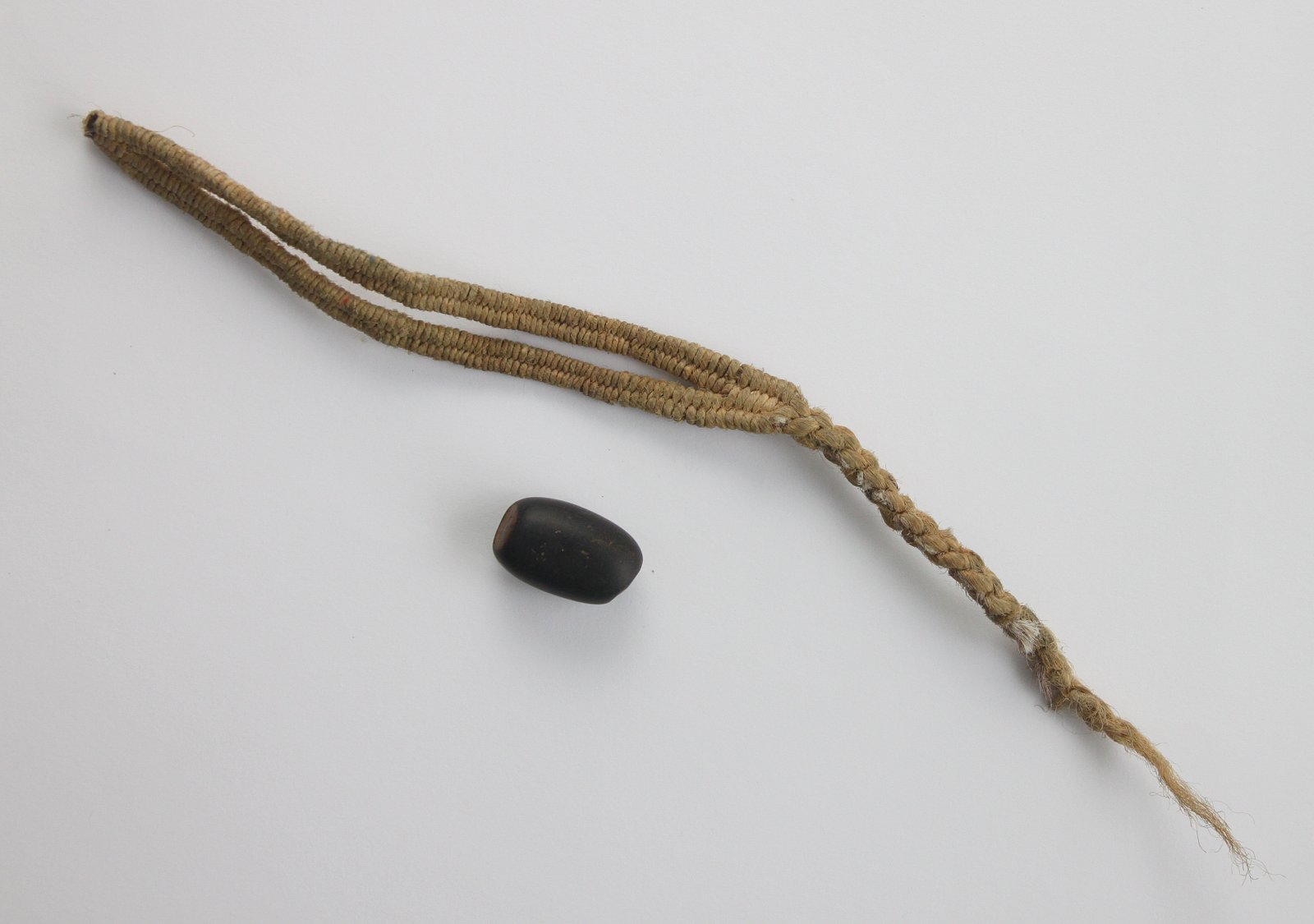 A black bullet with sling weapon Inca period Peru